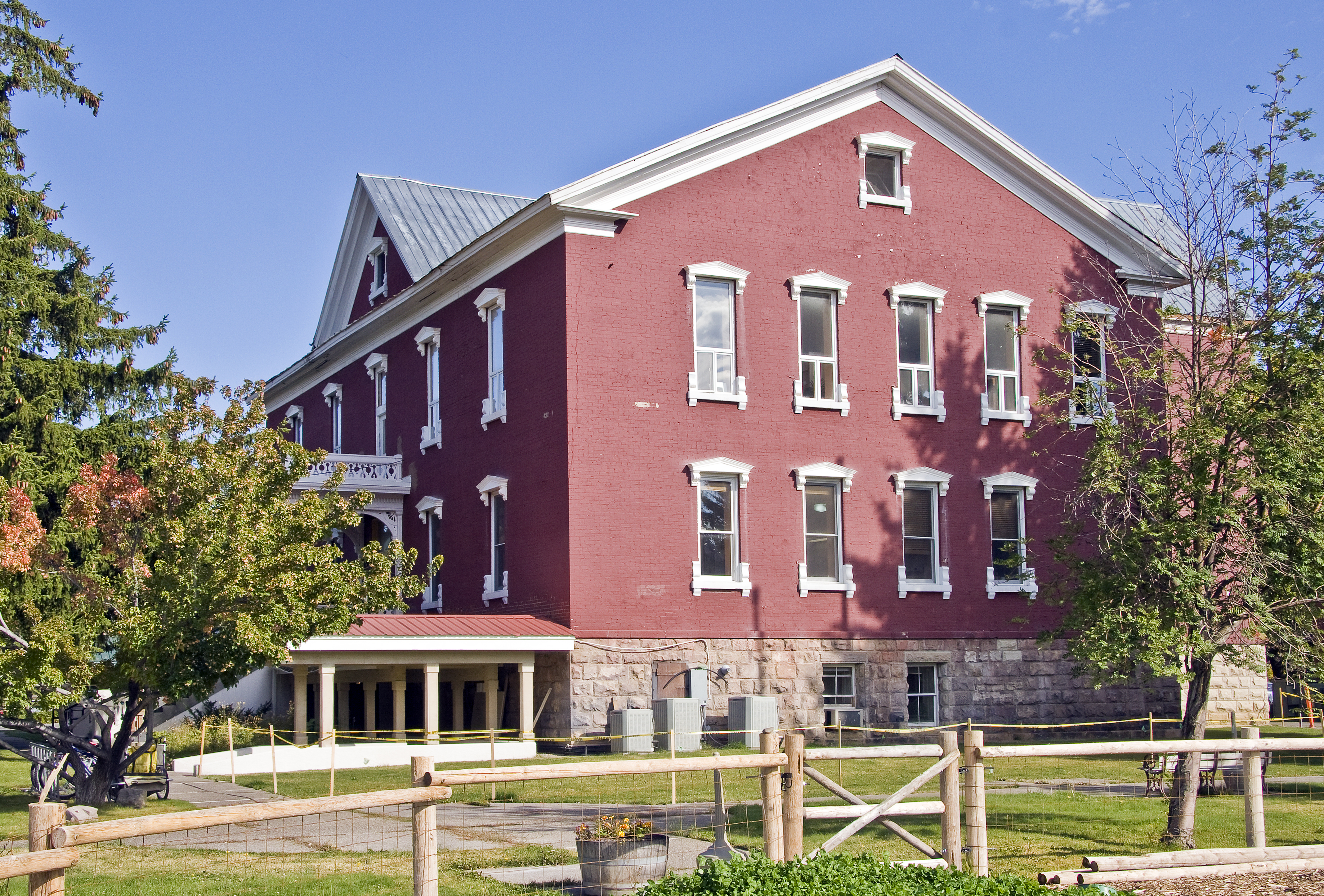 Blaine County Courthouse — in Hailey, Blaine County, Idaho. Built in 1883 to serve Alturas County in the Idaho Territory, which later became Blaine County in the state of Idaho. Listed on the National Register of Historic Places in Blaine County, Idaho.